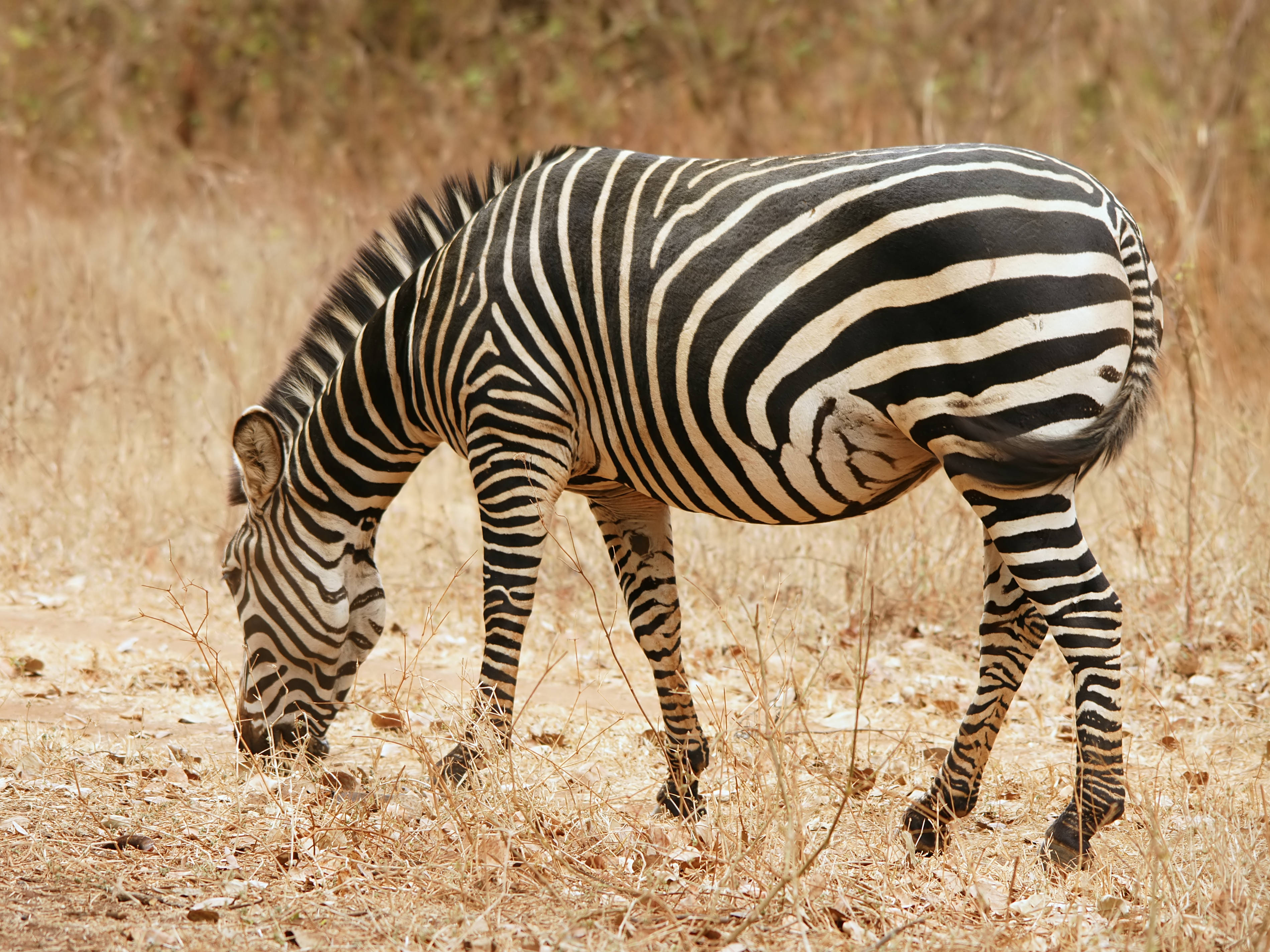 Grant's Zebra close to Chilanga near Lusaka, Zambia